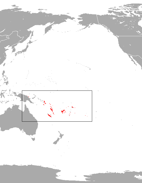 Insular Flying Fox (Pteropus tonganus) range